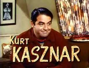 Cropped screenshot of Kurt Kasznar from the trailer for the film Lili